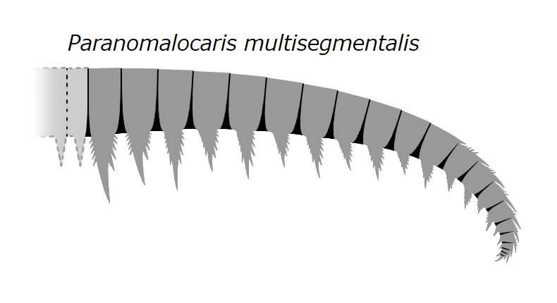 Frontal appendage of the radiodont genus Paranomalocaris, showing by P. multisegmentalis. Light grey indicating regions with incompleteness and/or uncertainties.